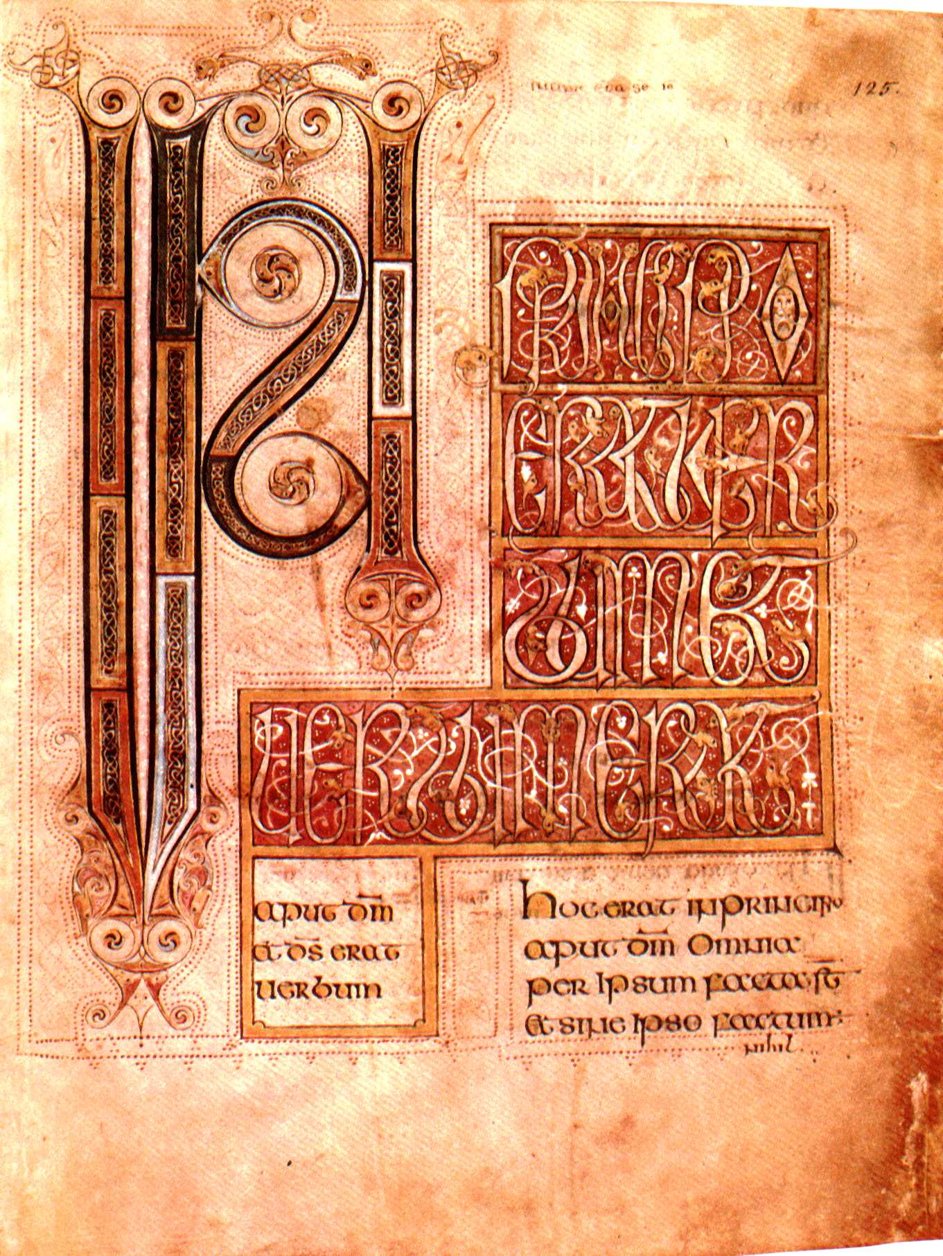 Folio 125 recto from the Barberini Gospels, The incipit page to John.